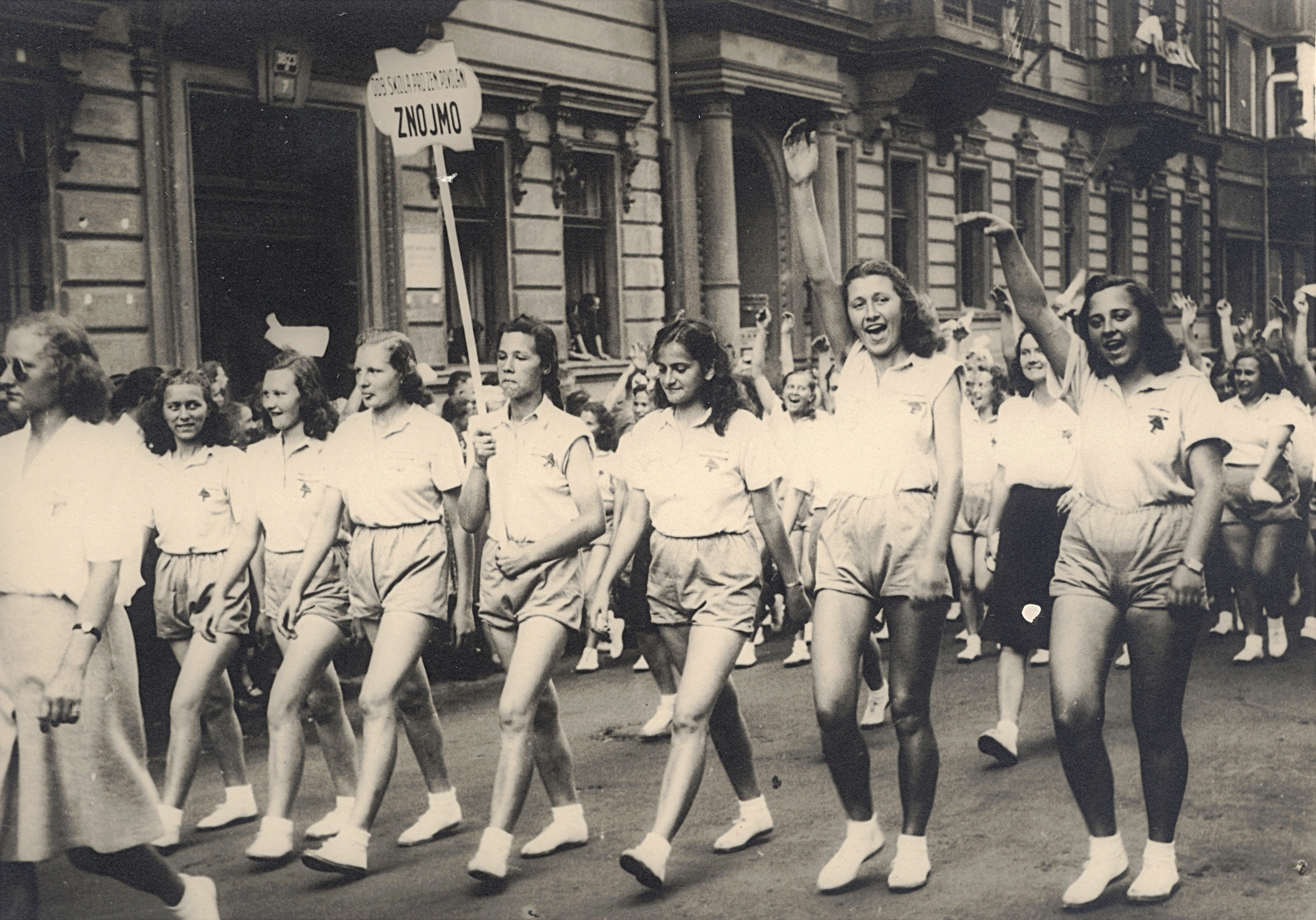 1st World Festival of Youth and Students, Prague 1947. Girls school from Znojmo.